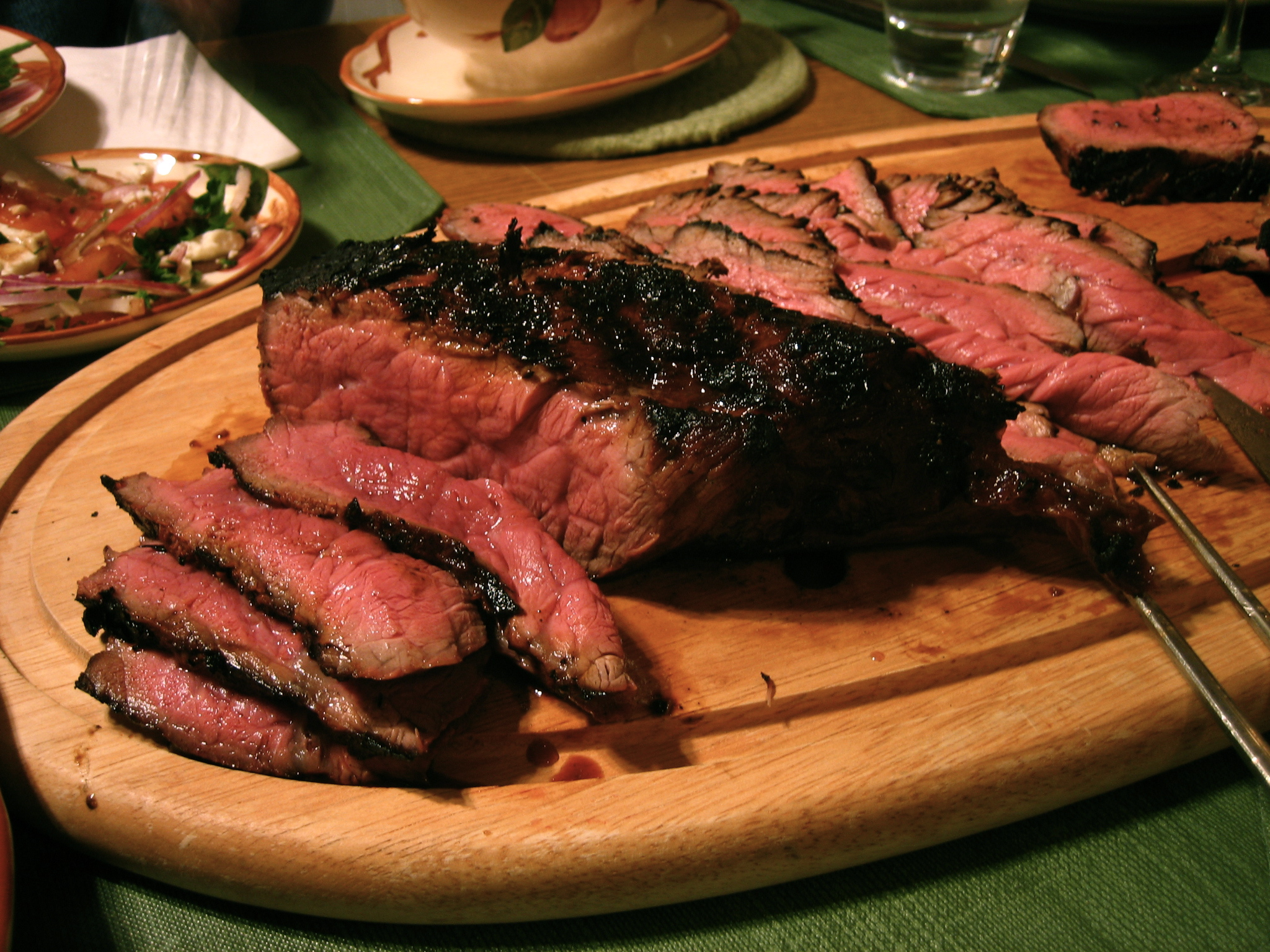 A photo of London broil.